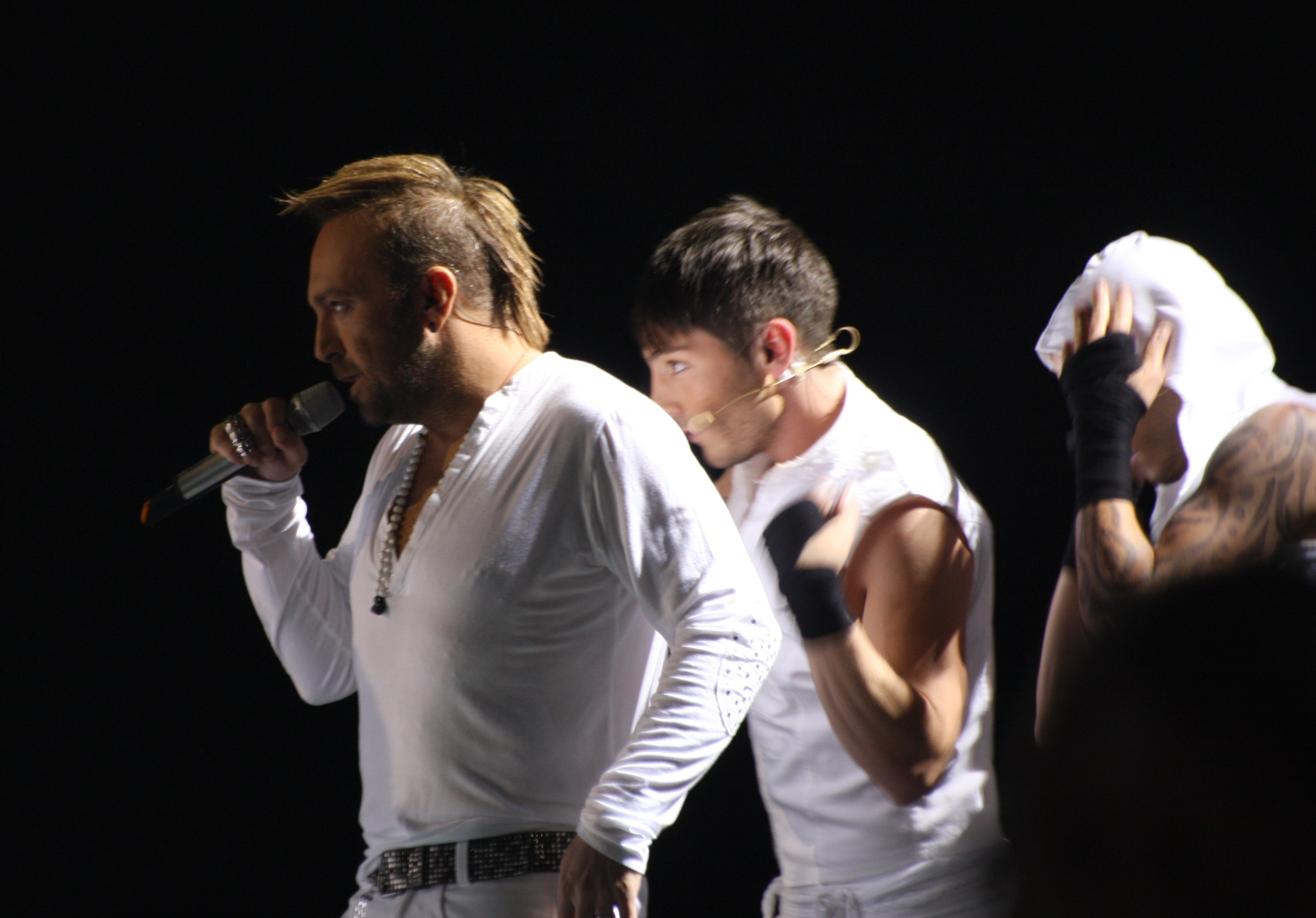 Giorgos Alkaios, Greece's contestor at ESC 2010, Telenor Arena, Norway.